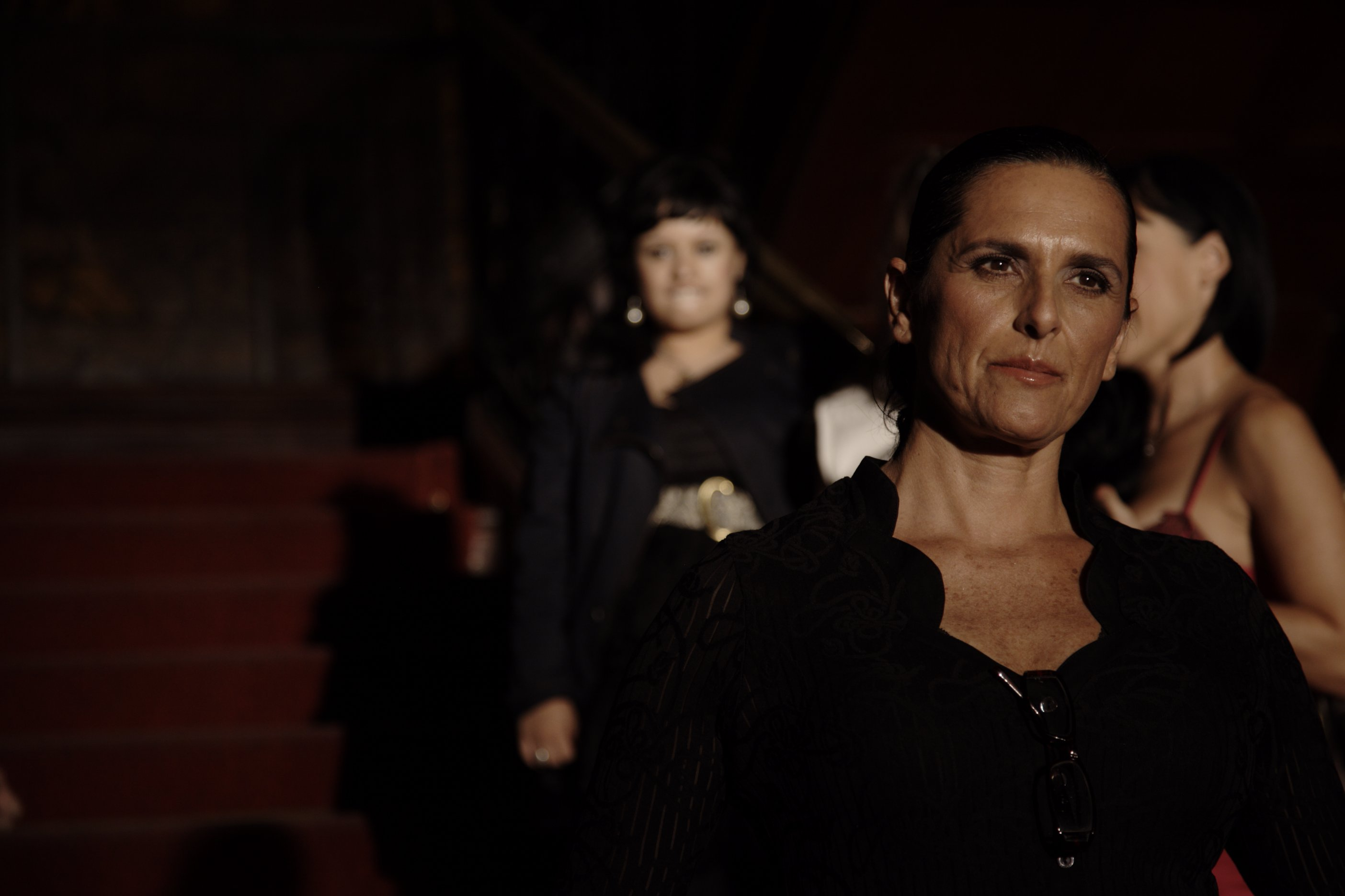 Cecilia Toussaint in 2009.